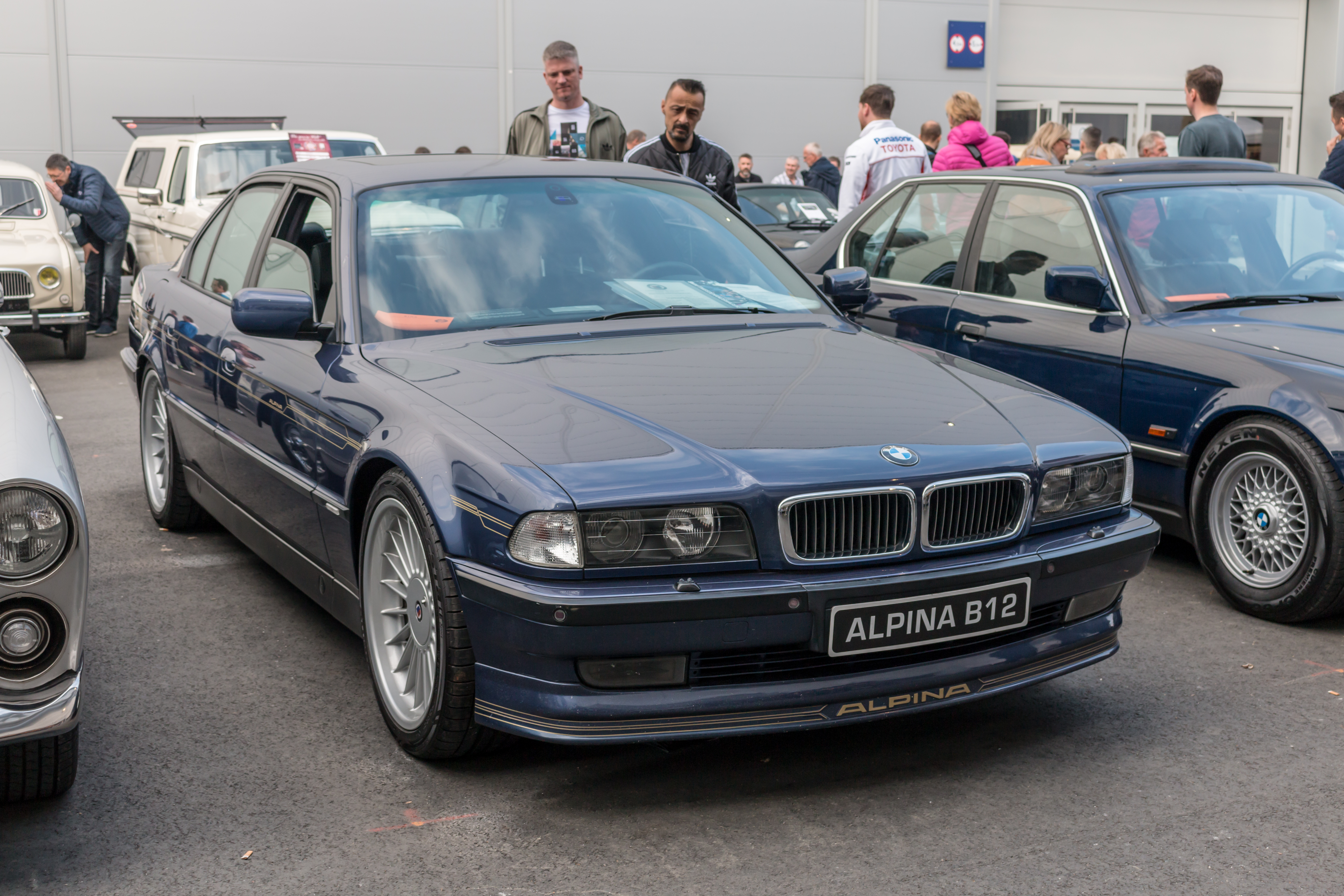 BMW, Techno-Classica 2018, Essen